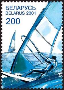 Stamp of Belarus